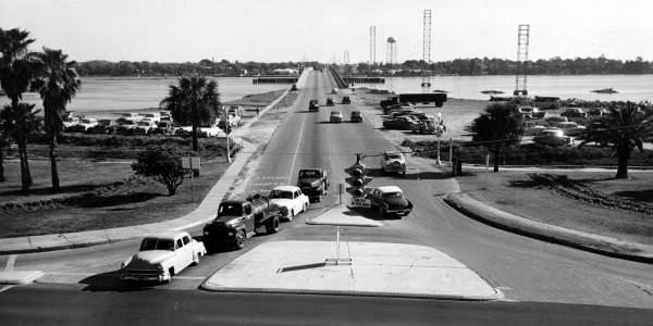 Looking east approaching Broadway Bridge, Daytona Beach, Florida. This four lane drawbridge was built by the State of Florida to replace an older bridge crossing the Halifax River, in 1947. (Cropped from larger image by User:gamweb)